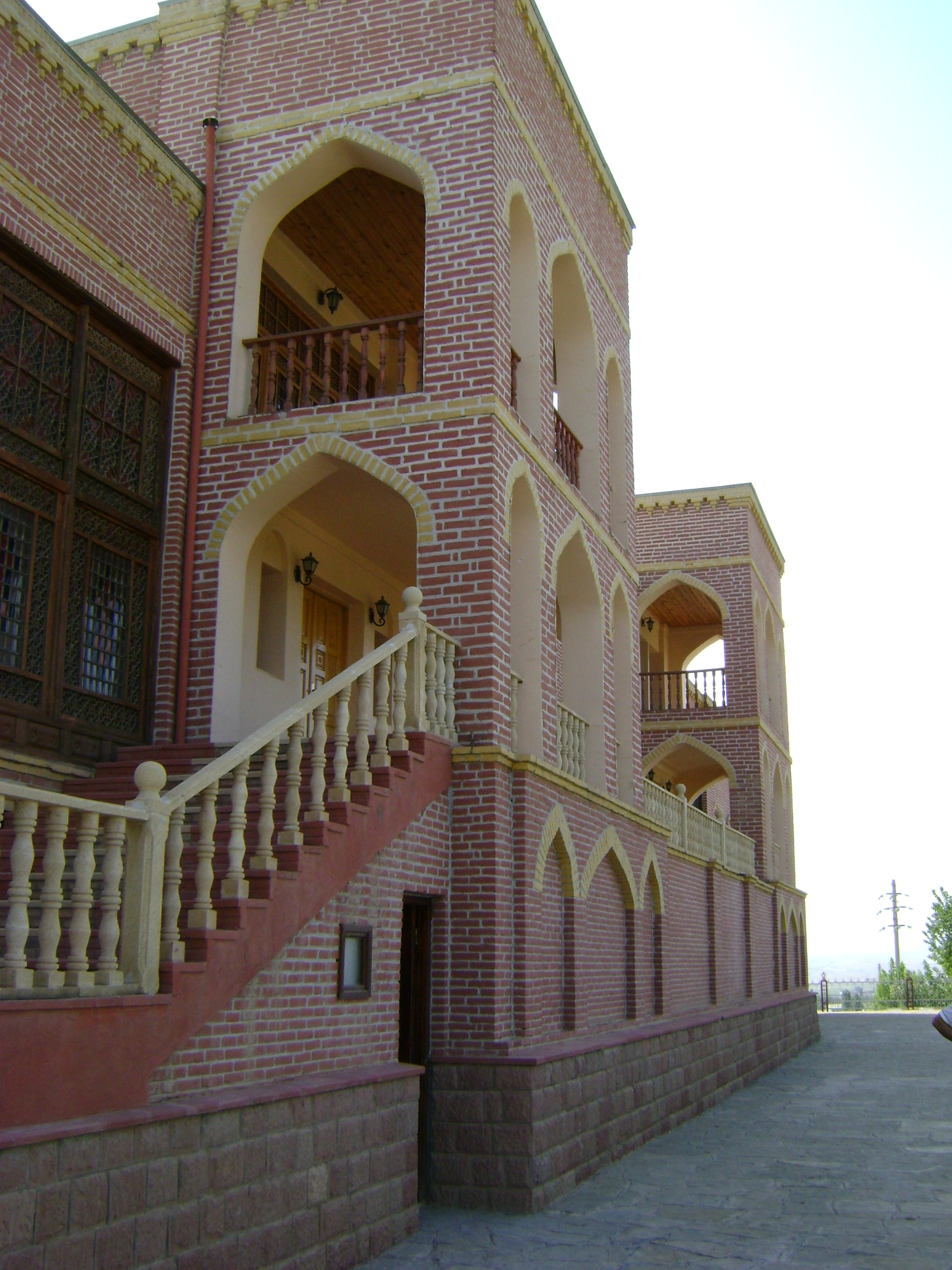 Nakhchivan_khan_palace